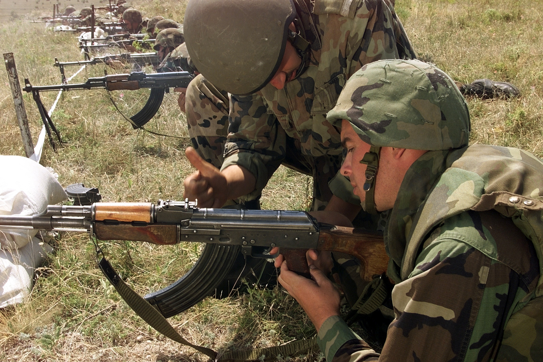 U.S. Marine Cpl. Chris P. Duane (right) receives assistance from an Romanian soldier in clearing a Russian RPK squad automatic rifle during the weapons familiarization phase of Exercise Rescue Eagle 2000 at Babadag Range, Romania, on July 15, 2000. Rescue Eagle 2000 is a Romanian-hosted joint and combined exercise designed to improve the abilities of multi-national forces to conduct peacekeeping, search and rescue, humanitarian assistance and disaster relief missions. Forces from Azerbaijan, Bulgaria, Georgia, France, Germany, Greece, Hungary, Italy Moldovia, Romania, Slovakia, Turkey and the United States are participating in the exercise. Duane, from Morristown, N.J., is attached to Golf Company, 25th Marine Regiment.